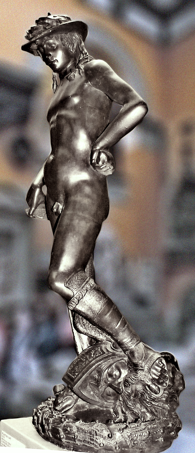 Painted plaster replica of Donatello's bronze David in the Cast Courts of the Victoria and Albert Museum, London. Front left, wide view. Note broken sword, uneven paintwork on left leg and fine cracks in plaster. Photo by User:Lee M, April 2005. 35mm lens, flash, skylight.